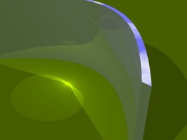 Reflexion of a plane wave by a cylindrical mirror with parabolic base